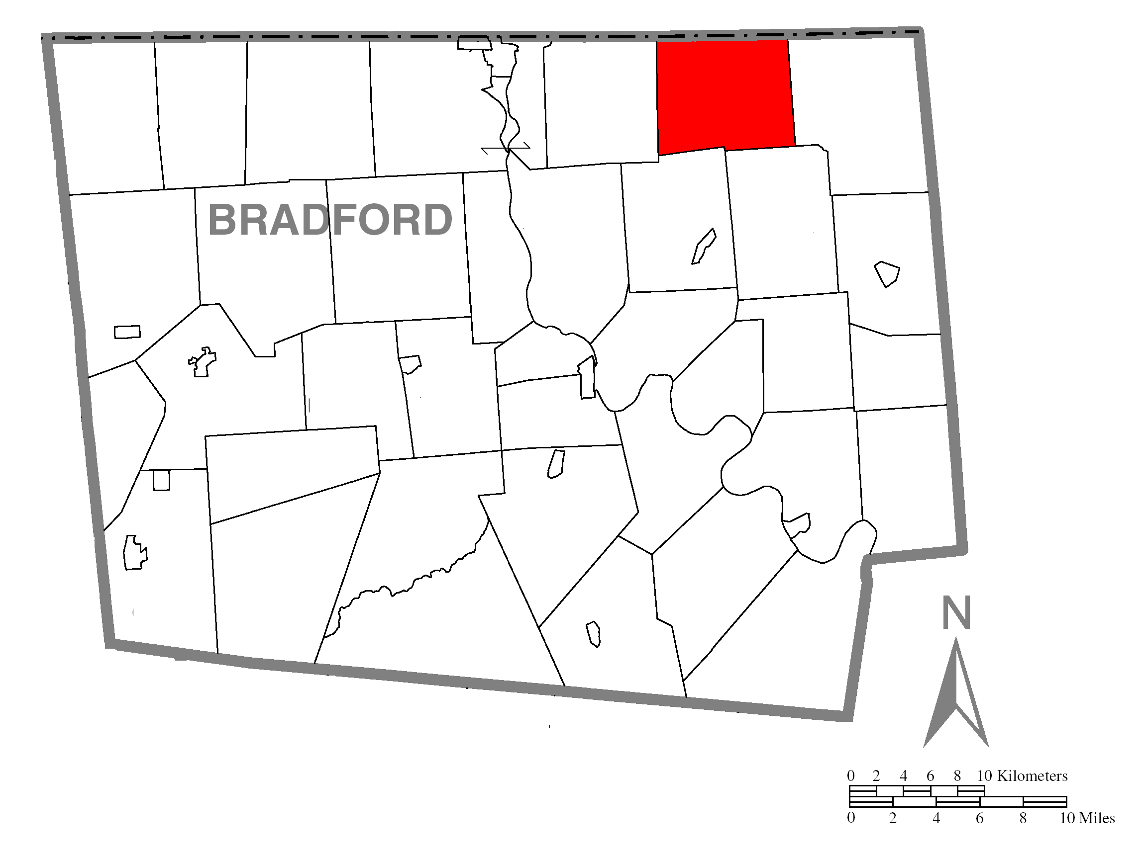 A map of Bradford County showing Windham Township, Pennsylvania (alternate) highlighted on the map.